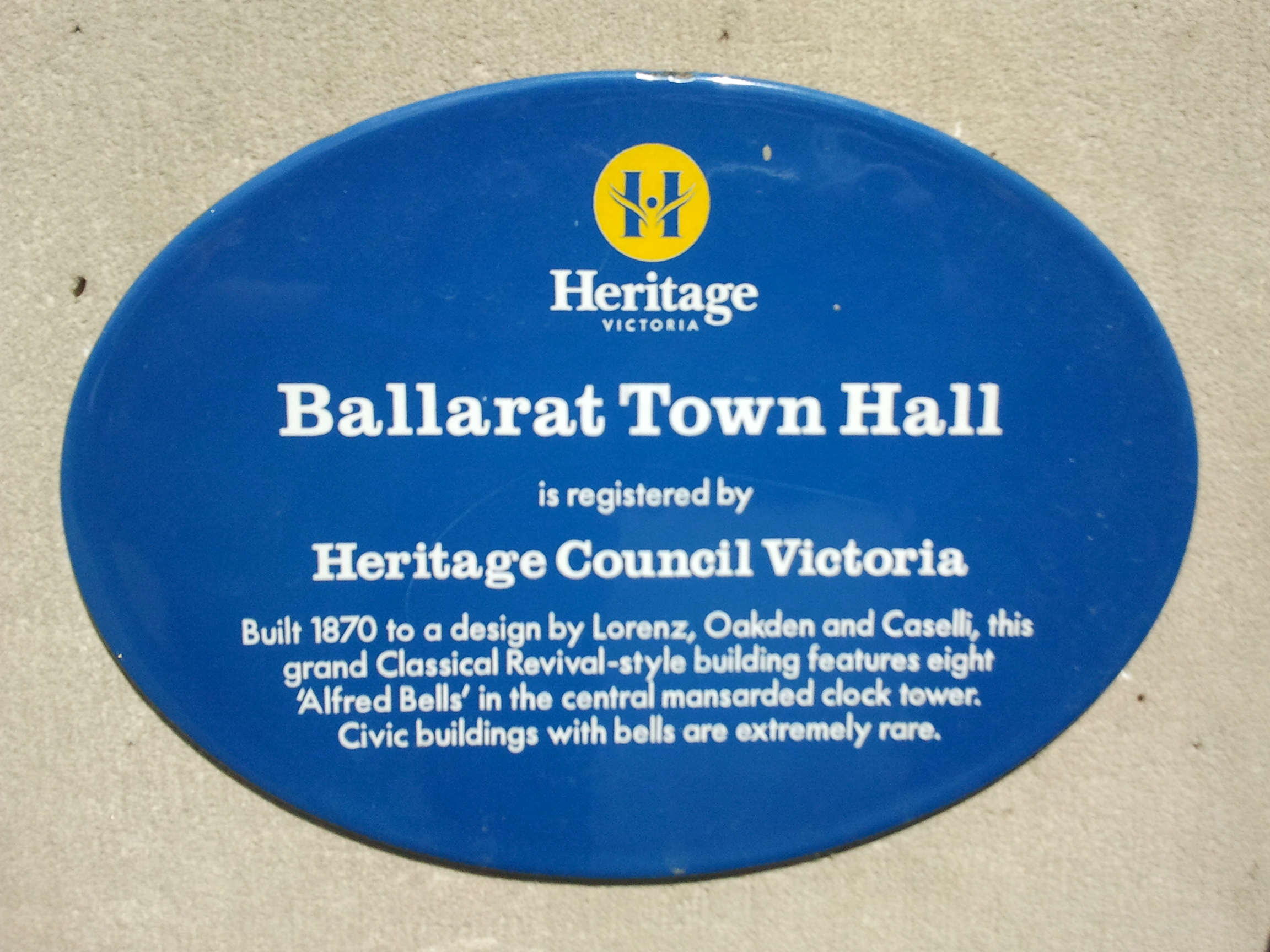 This is the blue plaque provided by Heritage Victoria for sites that are on the Victorian Heritage Register. This plaque is on the Ballarat Town Hall building in Sturt Street, Ballarat, Victoria, Australia.